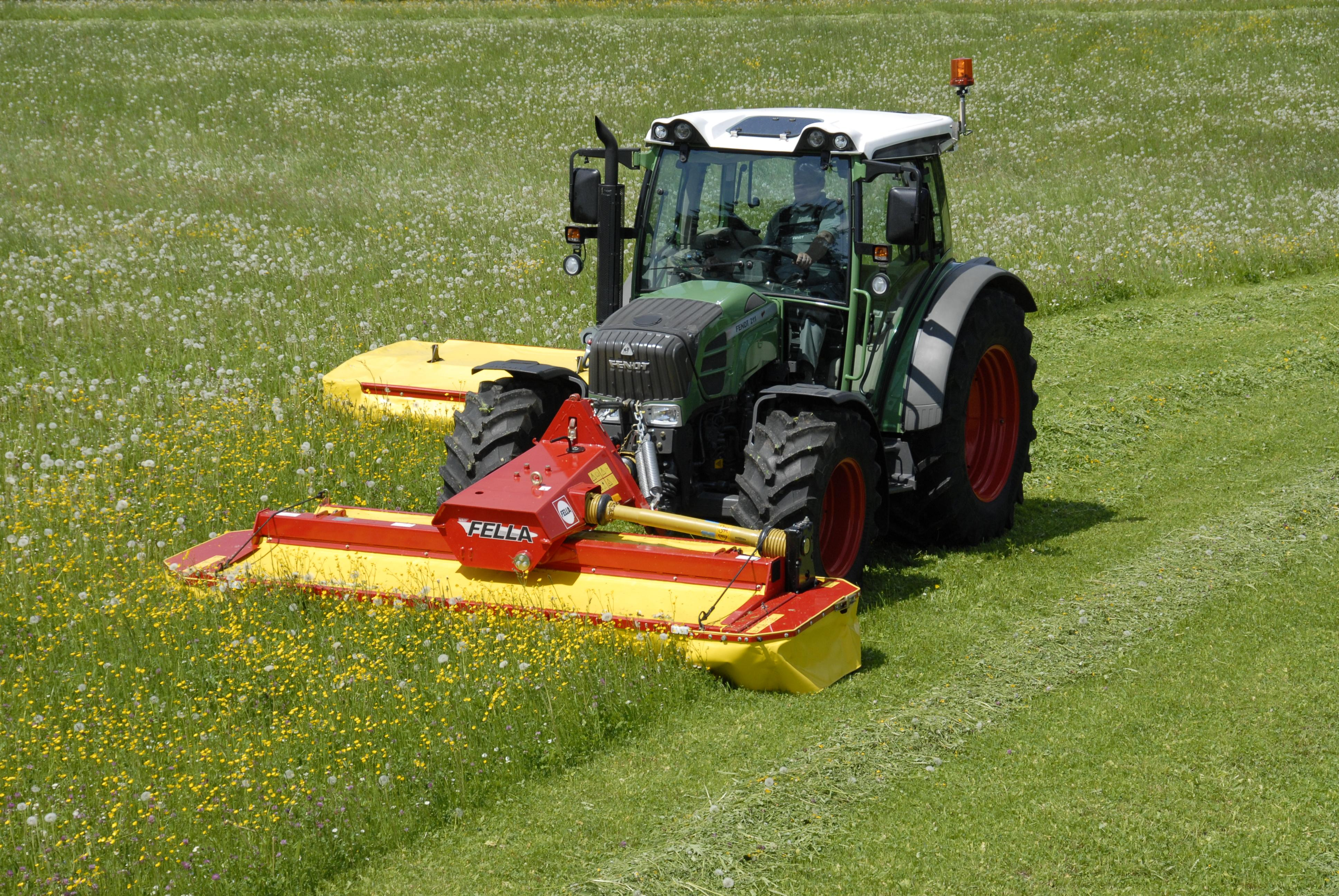 Fendt 211 Vario tractor with Fella mowers